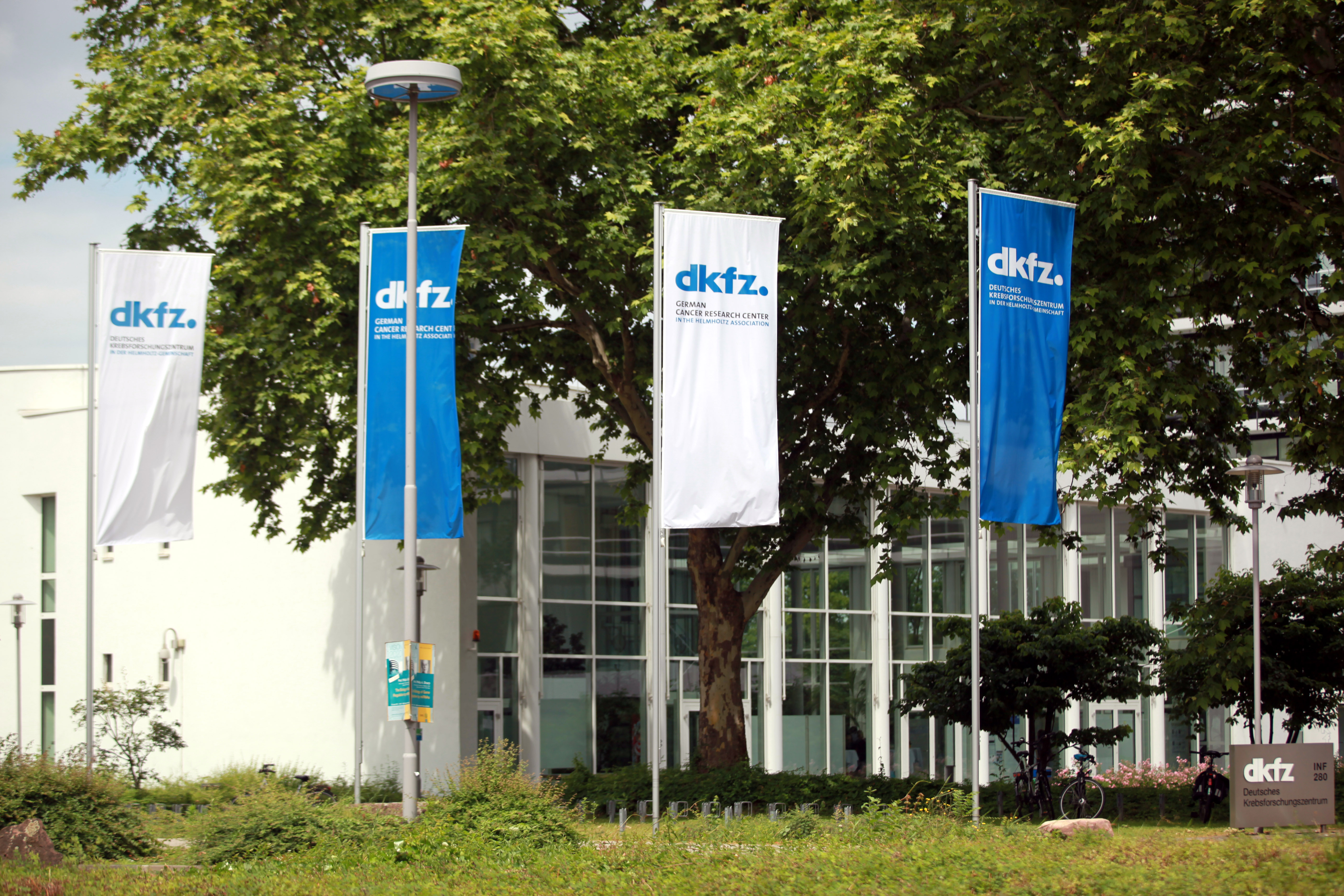 The communication center from the German Cancer Research Center (Deutsches Krebsforschungszentrum, DKFZ) in Heidelberg, Im Neuenheimer Feld 280.